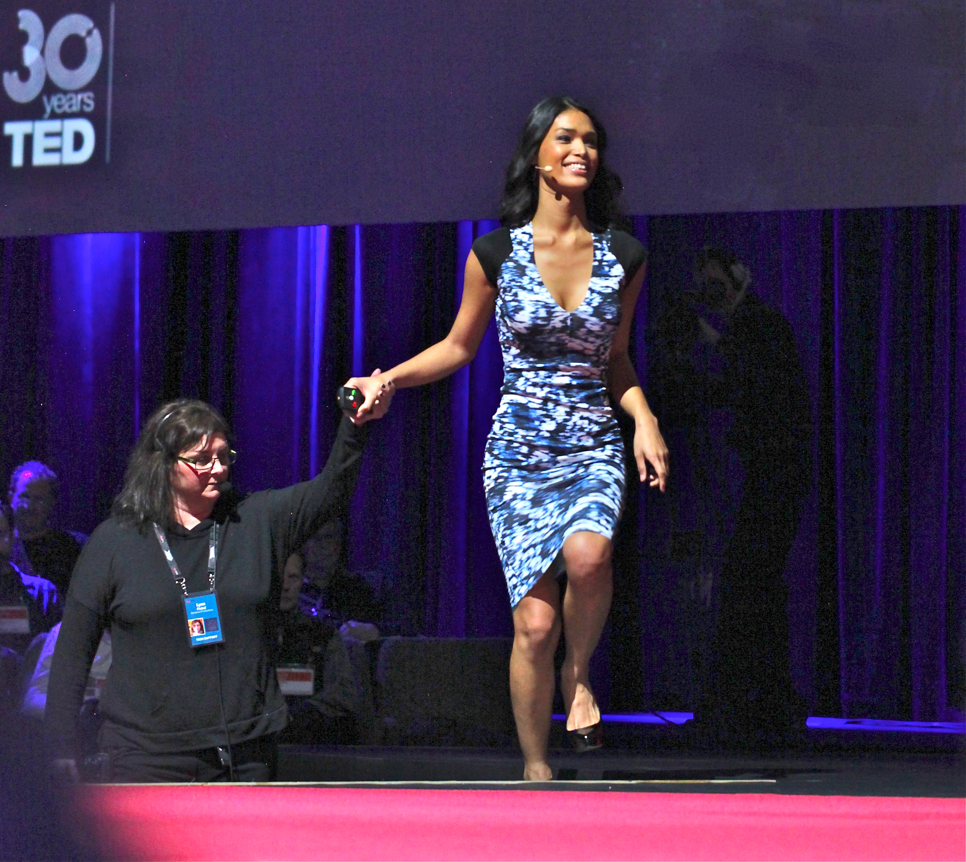 Her video just went online for the International Transgender Day of Visibility.